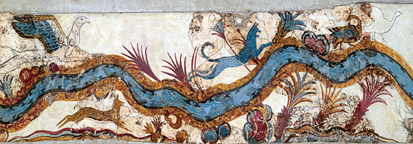 Fresco of a landscape with river from the bronze age excavations of Akrotiri on the greek island Santorini.